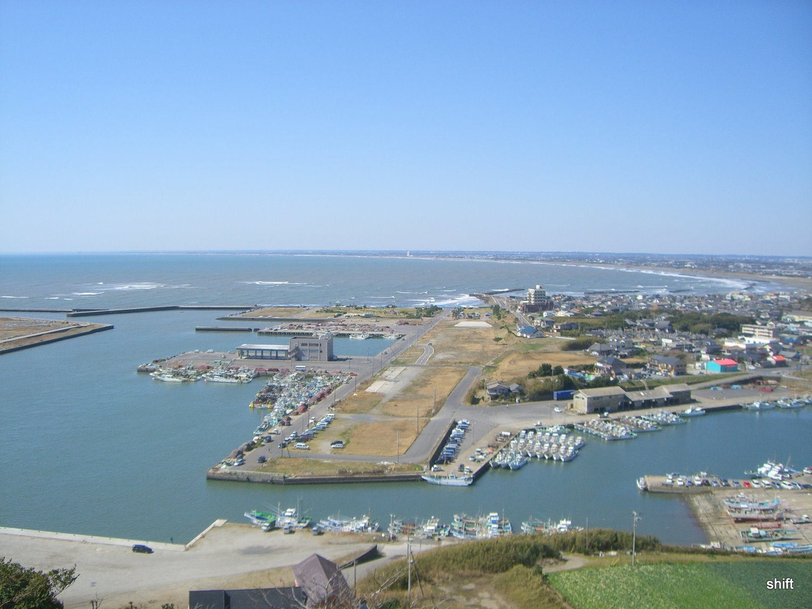 Iioka Fishing Port and Kujukuri Beach as seen from Iioka Lighthouse in Asahi City, Chiba Prefecture, Japan